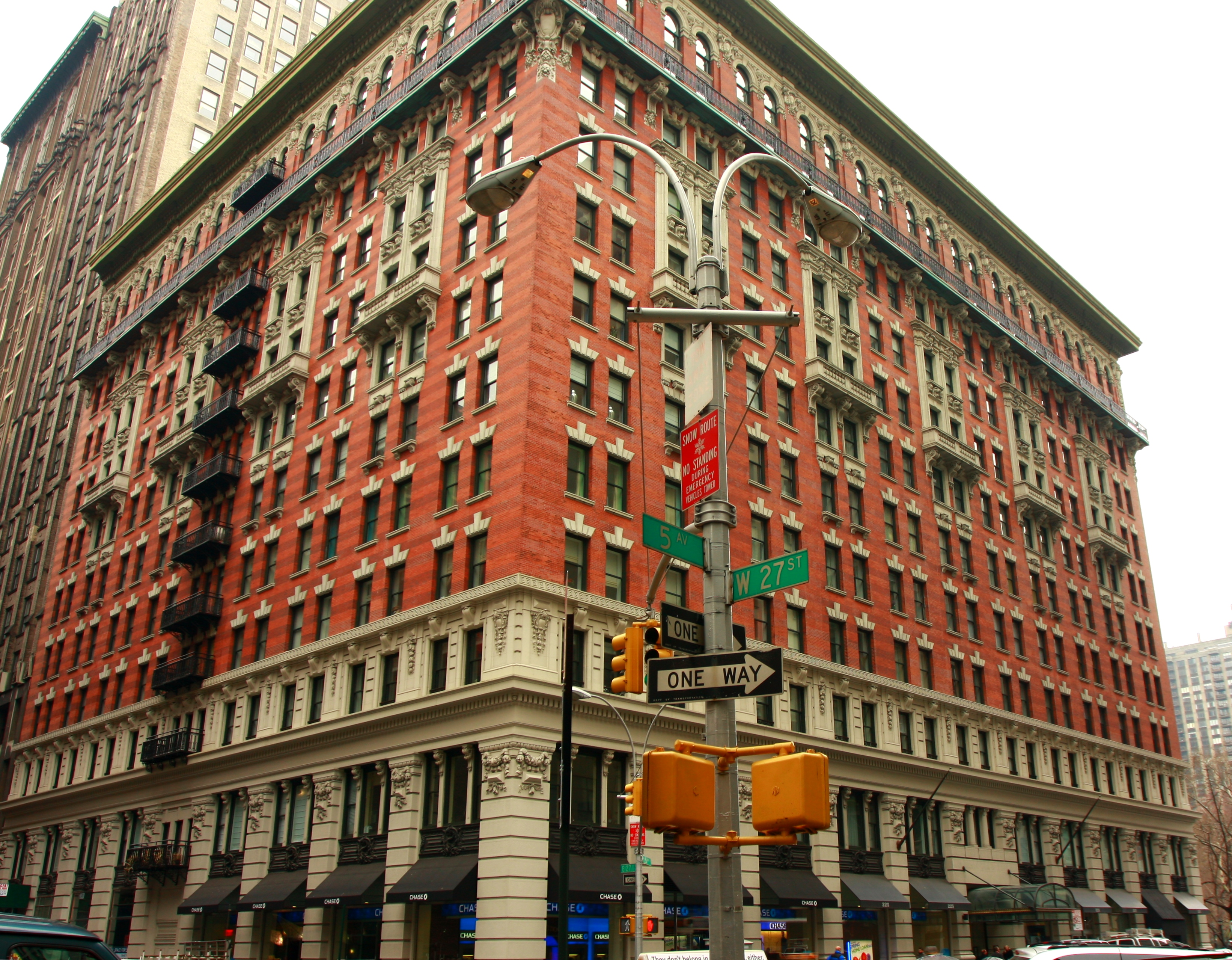 This photo is of Wikipedia Takes Manhattan location code 101, The Grand Madison.